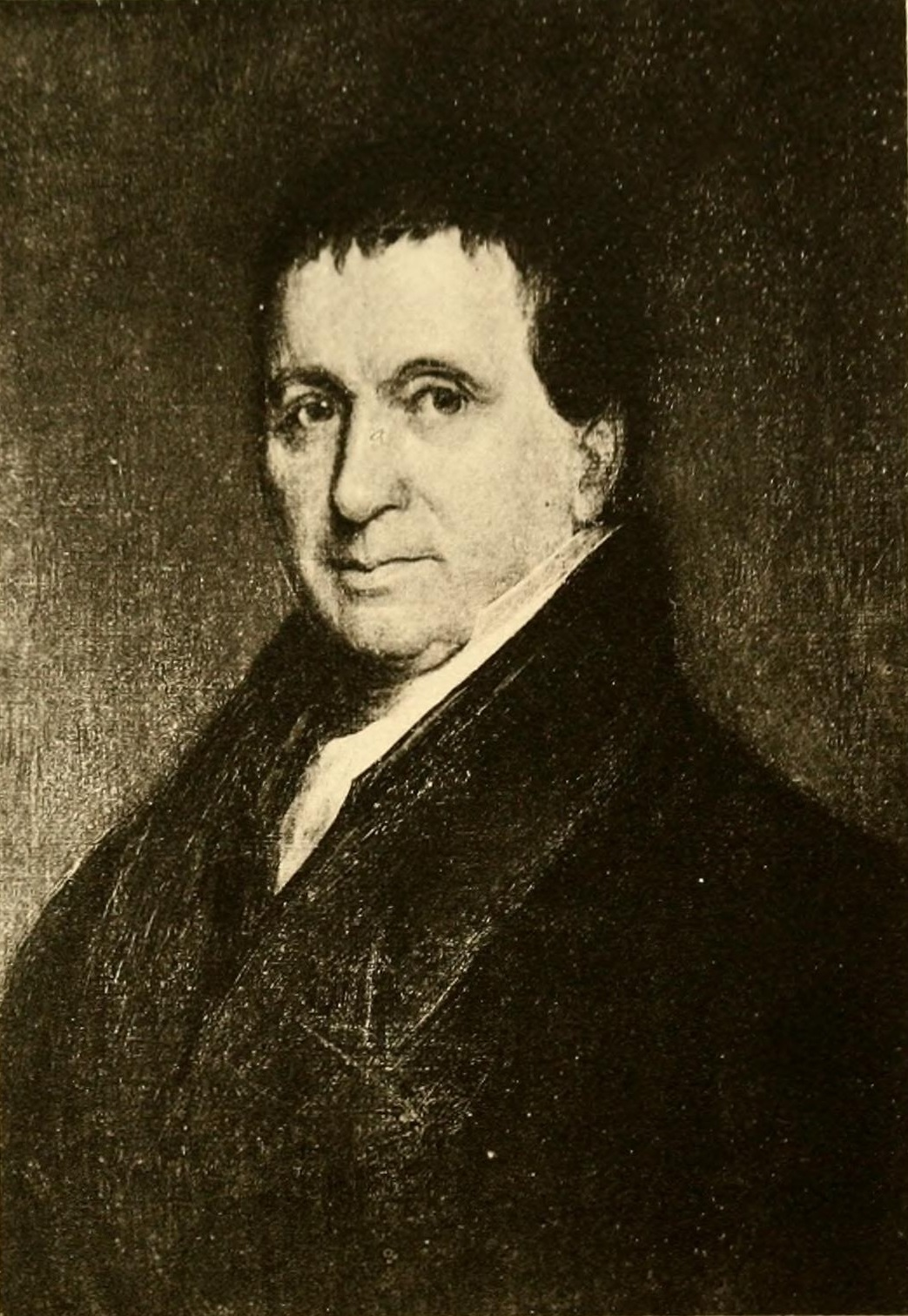 John Holbrook (Brattleboro, Vermont businessman)